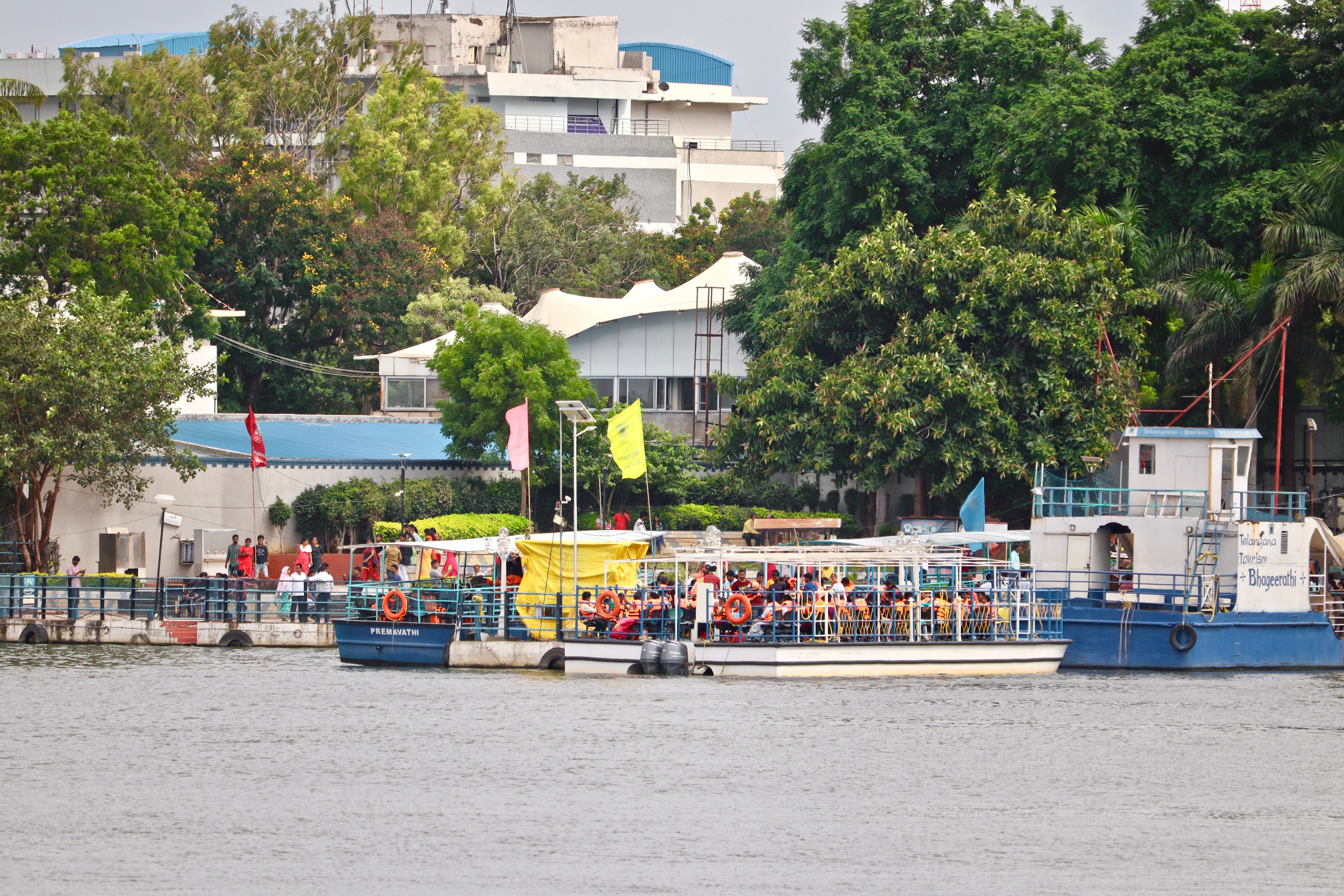 Hussain Sagar boarding point on Necklace road